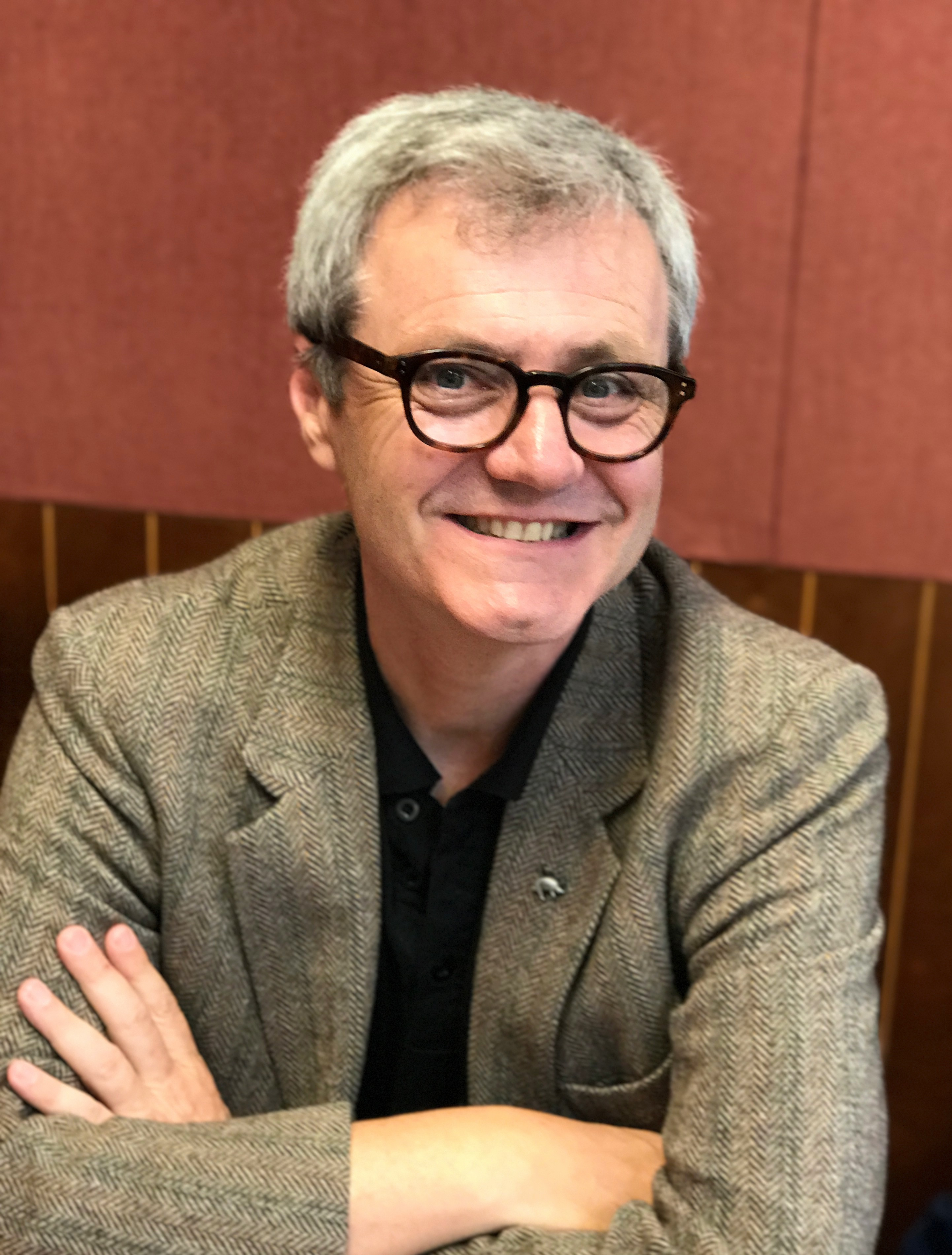 Richard Saunders at the New Zealand Skeptic conference